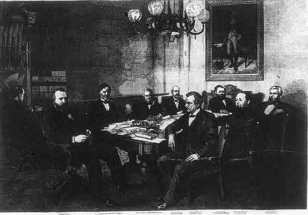 A cabinet meeting at the White House- Pres. Hayes, John Sherman [Secy. of the Treasury], R.W. Thompson [Secy. of the Navy], Charles Devens [Atty. Gen.], William Evarts [Secy. of State], Carl Schurz [Secy. of Interior], George McCrary [Secy. of War] and David Key [Postmaster Gen.]